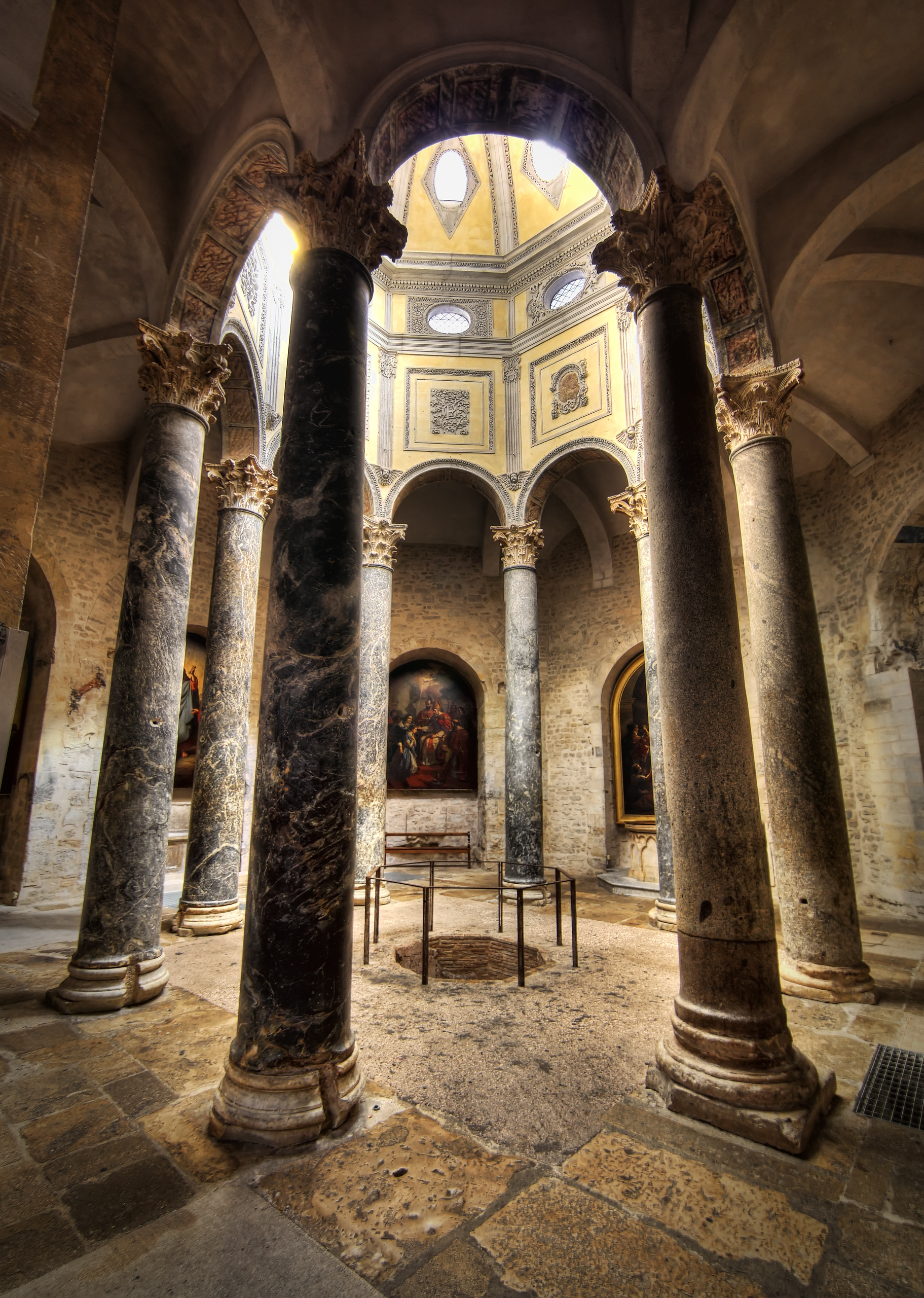 Baptistery within Saint-Sauveur Cathedral, Aix-en-Provence, France. The baptistery was built at the beginning of the 6th century, at about the same time as similar baptisteries in Fréjus Cathedral and Riez Cathedral in Provence, in Albenga in Liguria, and in Djémila, Algeria. Only the octagonal baptismal pool and the lower part of the walls remain from that period. The other walls and the dome were rebuilt in the Renaissance. A viewing hole in the floor reveals the bases of the porticoes of the Roman forum under the baptistery (source-Wikipedia). Some tech details about this photograph: Tripods are not allowed in this sacred place so all exposures were taken handheld hence the not so crisp result. Camera Canon EOS 550D + Tokina 12-24mm. ISO speed ratings 200 Nine handheld bracketed exposures -2/0/+2 Six additional exposures -4/+4 generated in Canon DPP. Total 15 exposures CA and noise reduction in Photoshop CS3 HDR + Tonemapping in Photomatix Adjustments in levels, curves, sharpness and colours in Photoshop CS3. Farbspiel method (Thanks Klaus). I hope some other time I am allowed to use my tripod in this fantastic location. This image and many more from my Photostream are licensed under Creative Commons licence. Author: Salva Barbera. You can use this image on websites, blogs or any other media projects without my permission as long as you credit me as the Author. My images may not be used for any profane or immoral purpose or to incite violence or hatred. Please read the Creative Commons image licence guidelines before downloading. G